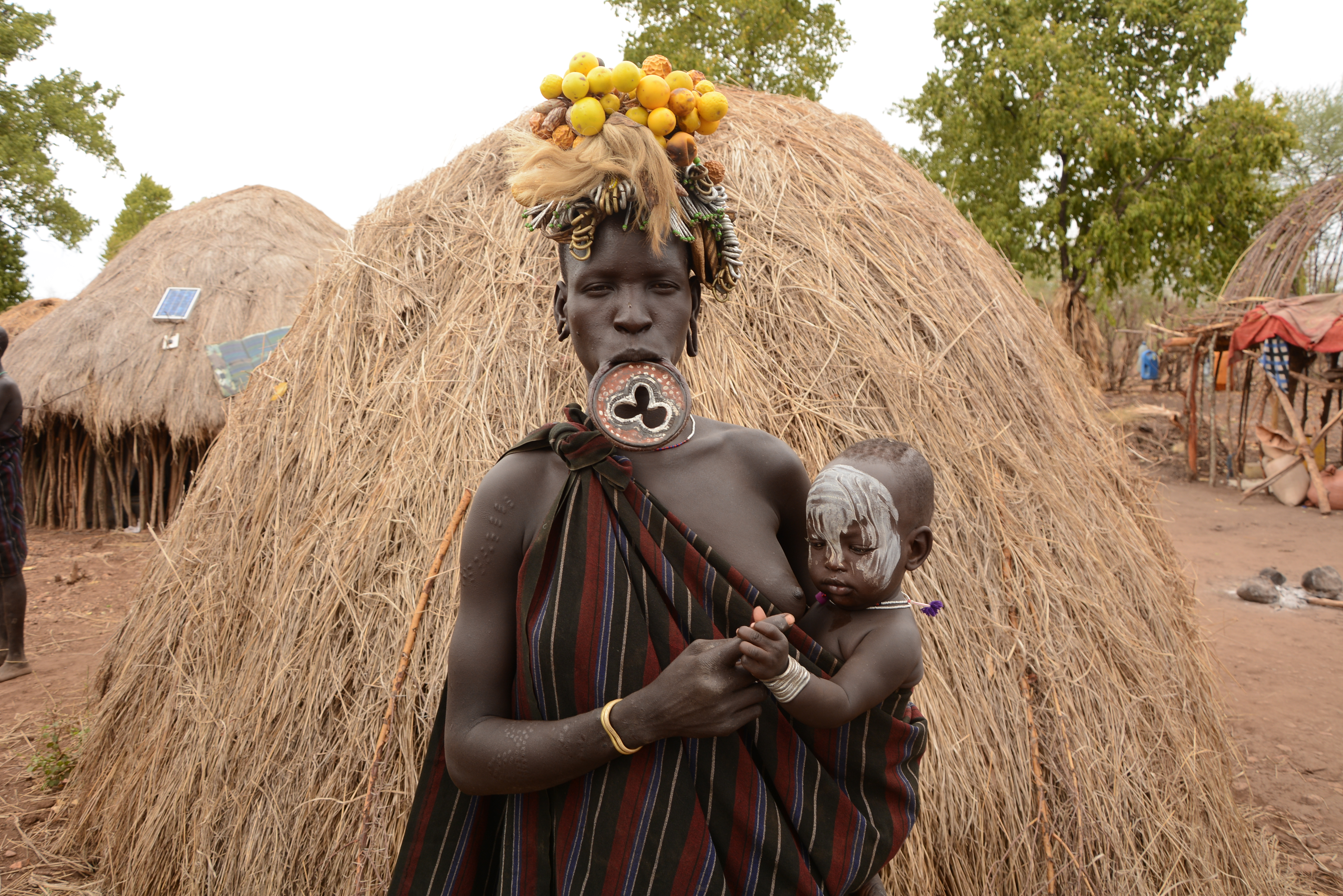 Mursi woman with the characteristic lip plate. Breastfeeding on demand This is an image of Cultural Fashion or Adornment from Ethiopia